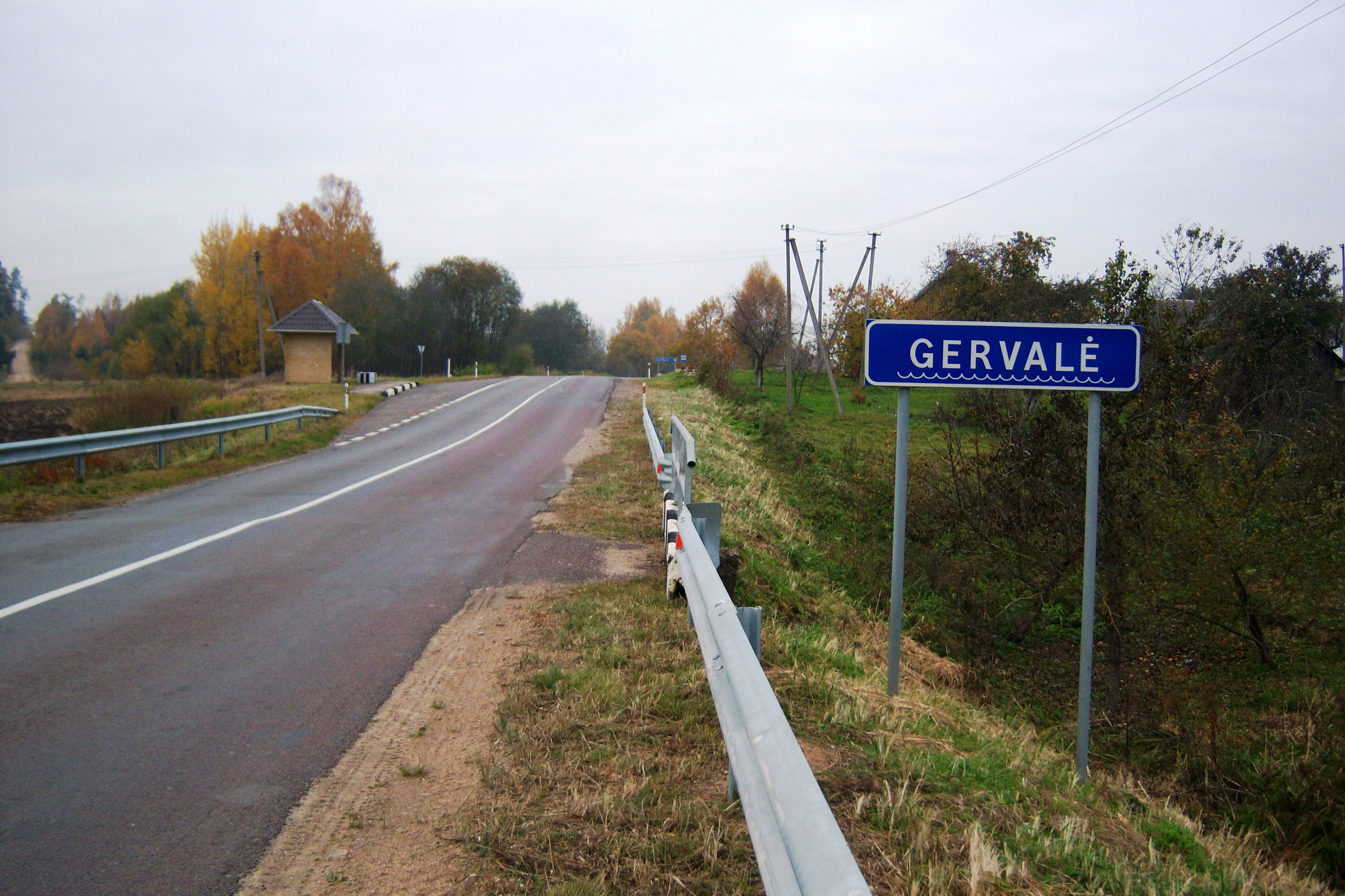 Road KK161 Telšiai-Seda, Sarakai, Lithuania